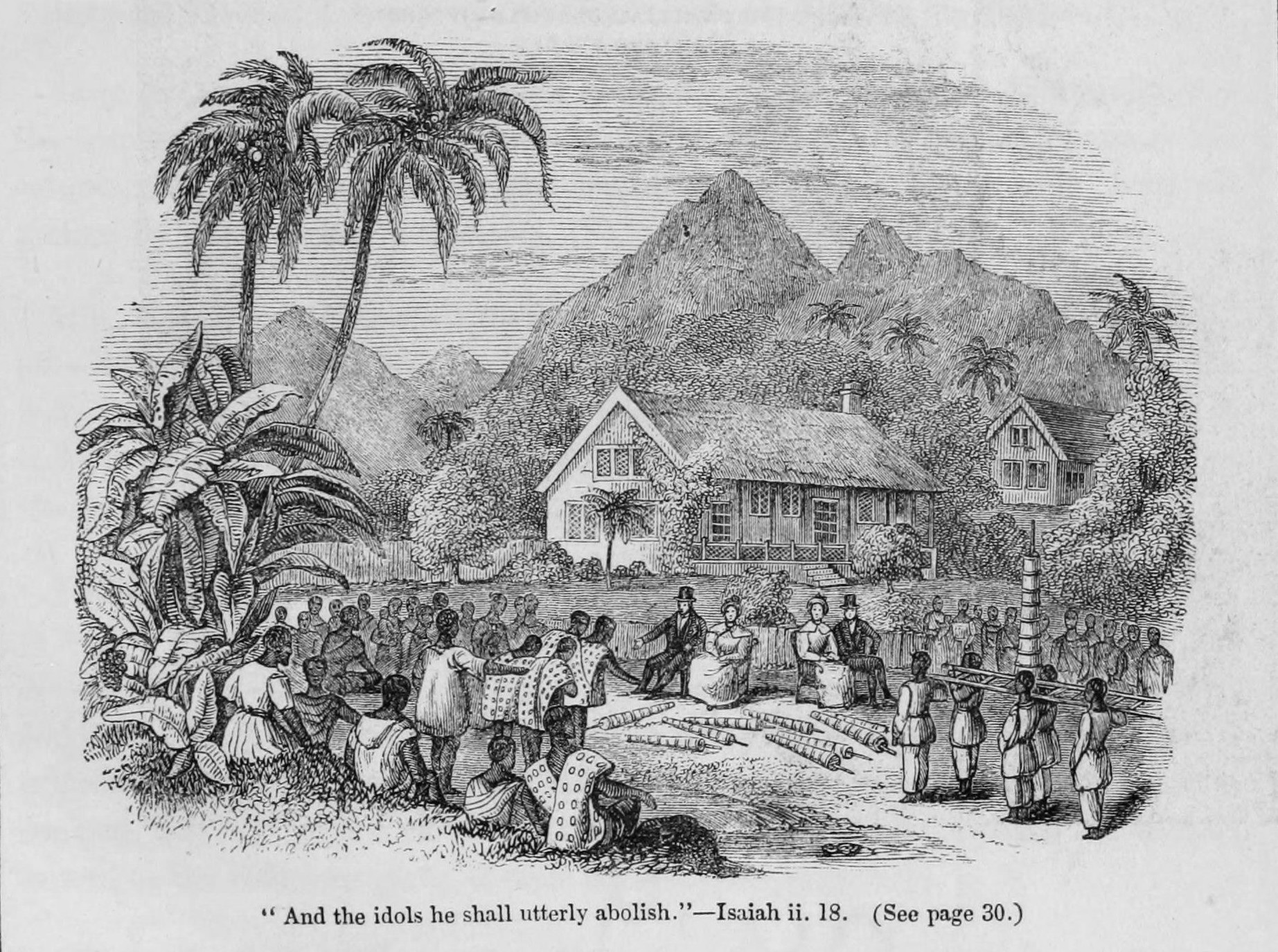 Caption: "And the idols he shall utterly abolish." — Isaiah ii. 18. An engraving depicting the confiscation and destruction of idol gods by European missionaries in Rarotonga.